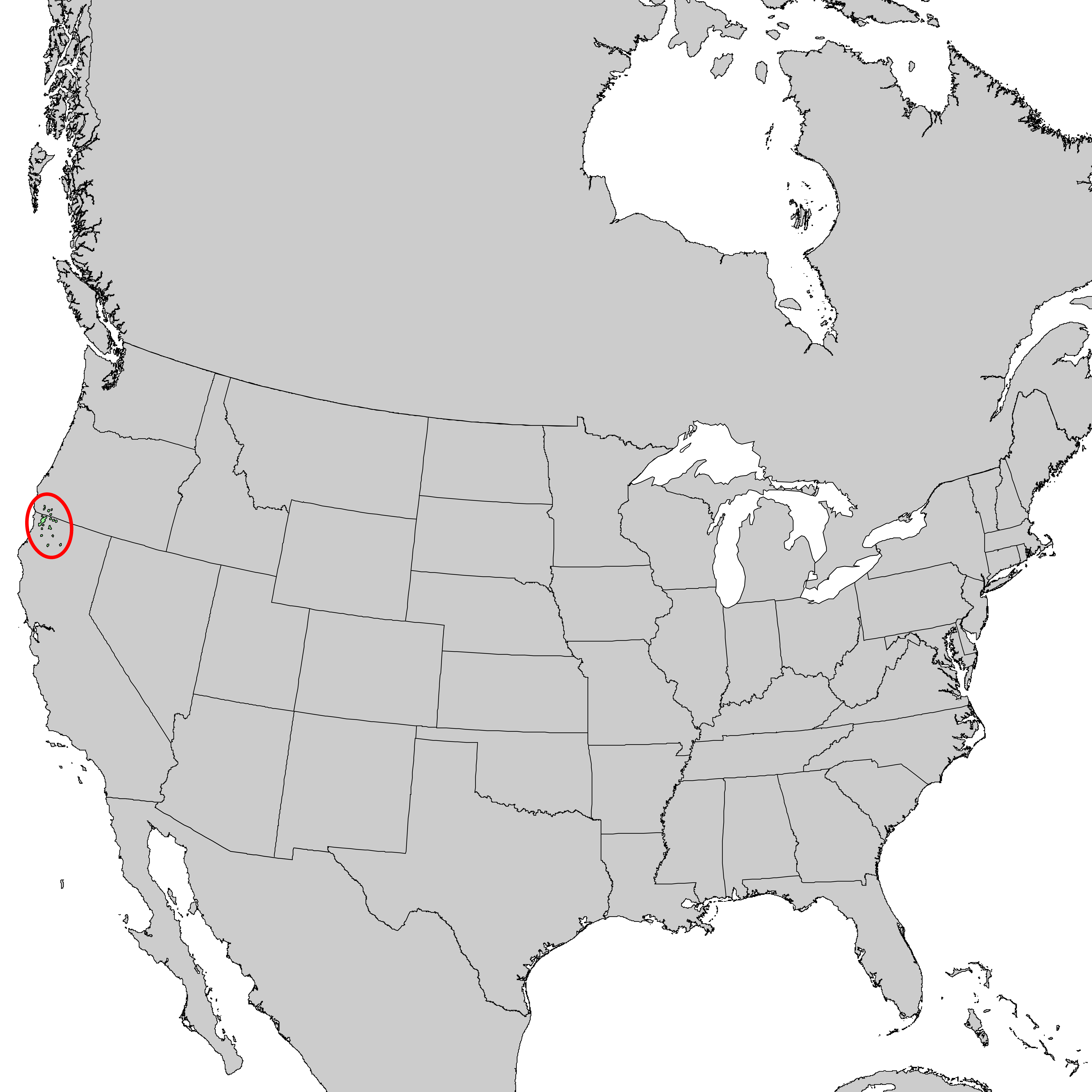 Natural distribution map for Picea breweriana (Brewer's spruce)